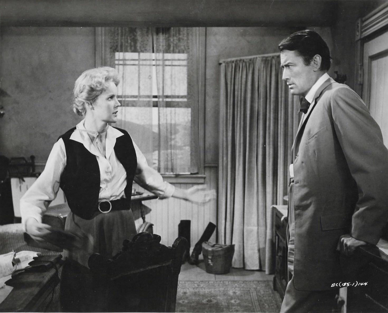 Promotional photo of Carroll Baker and Gregory Peck in the American western film The Big Country (1958).